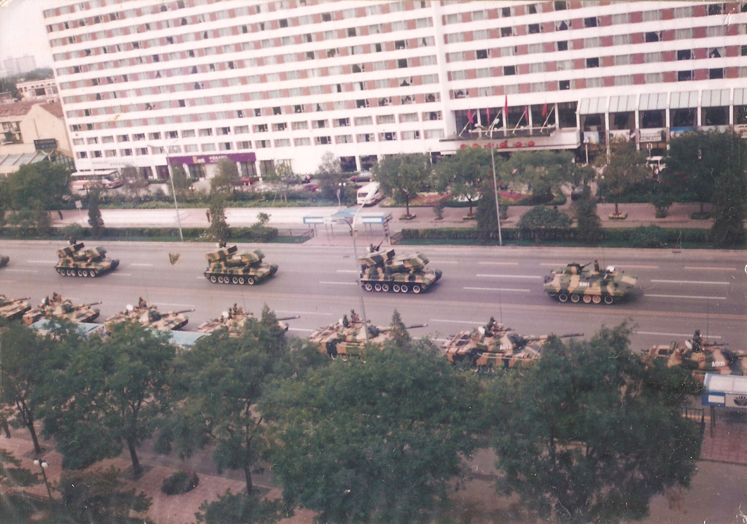 50th anniversary of the People's Republic of China, taken in my apartment, opposite of Jinglun hotel, when I was 5 years old. The rocket artillery pieces are PHZ89 (Type 89) 122mm Multi-Barrel Rocket Launchers (MBRL).中文（中国大陆）: 首都各界庆祝中华人民共和国成立50周年大会后，5岁的我坐在家（京伦饭店对面）里的桌子上，用傻瓜相机，第一次拍摄历史时刻的照片。